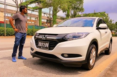 Jackie Prabhu, founder and CEO of Clutched, an online programme about cars, reviewing a Honda Vezel.